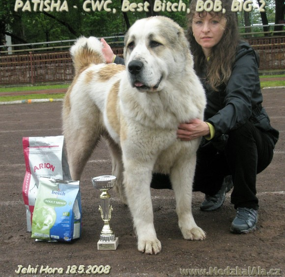 On the photo is our female Ch.Odor Mortis PATISHA, imp. Russia. She is granddaughter turkmenian dog. More info about this female you find on